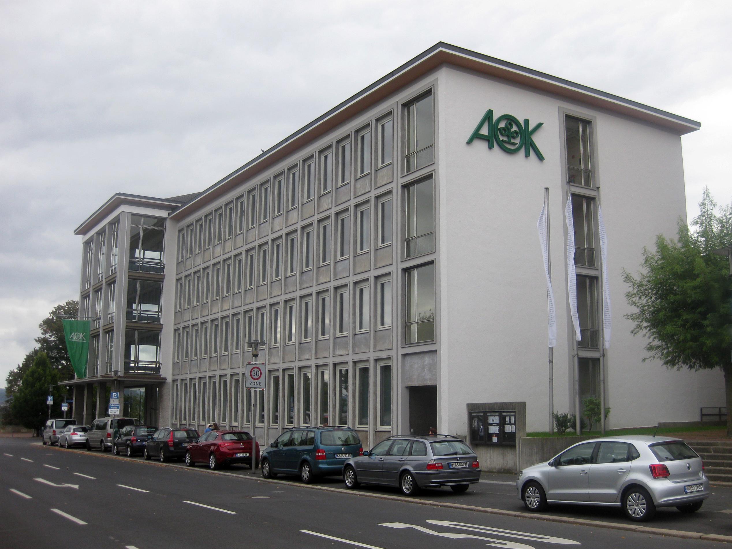 Building of the AOK ath the Friedrichsplatz in Kassel. Architect Konrad Proll